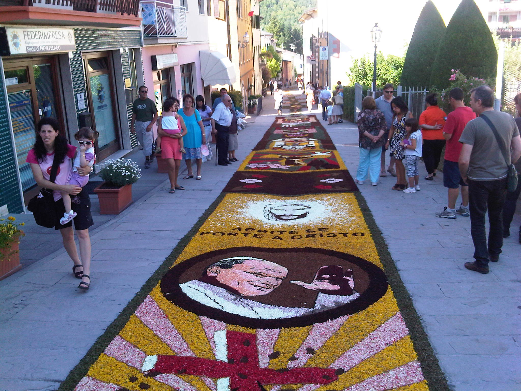 The 2011 Infiorata day in Pievepelago, Emilia Romagna. '